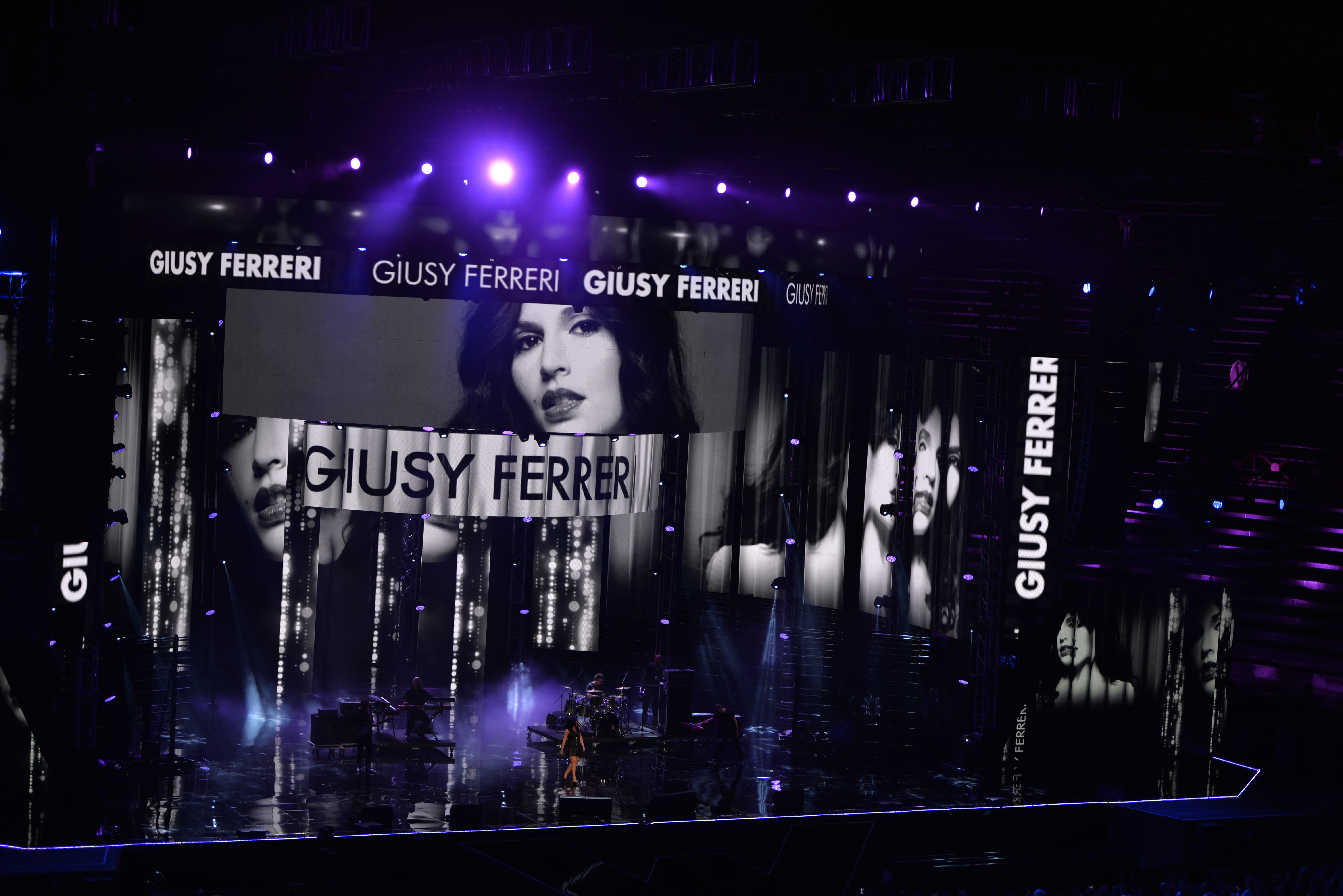 Giusy Ferreri during the Wind Music Awards 2016 ceremony at Verona Arena